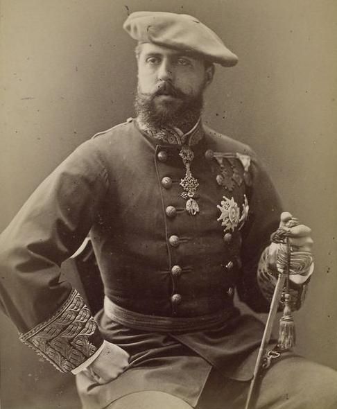 Don Carlos de Borbón (1848 - 1909), pretender to the Spanish throne.